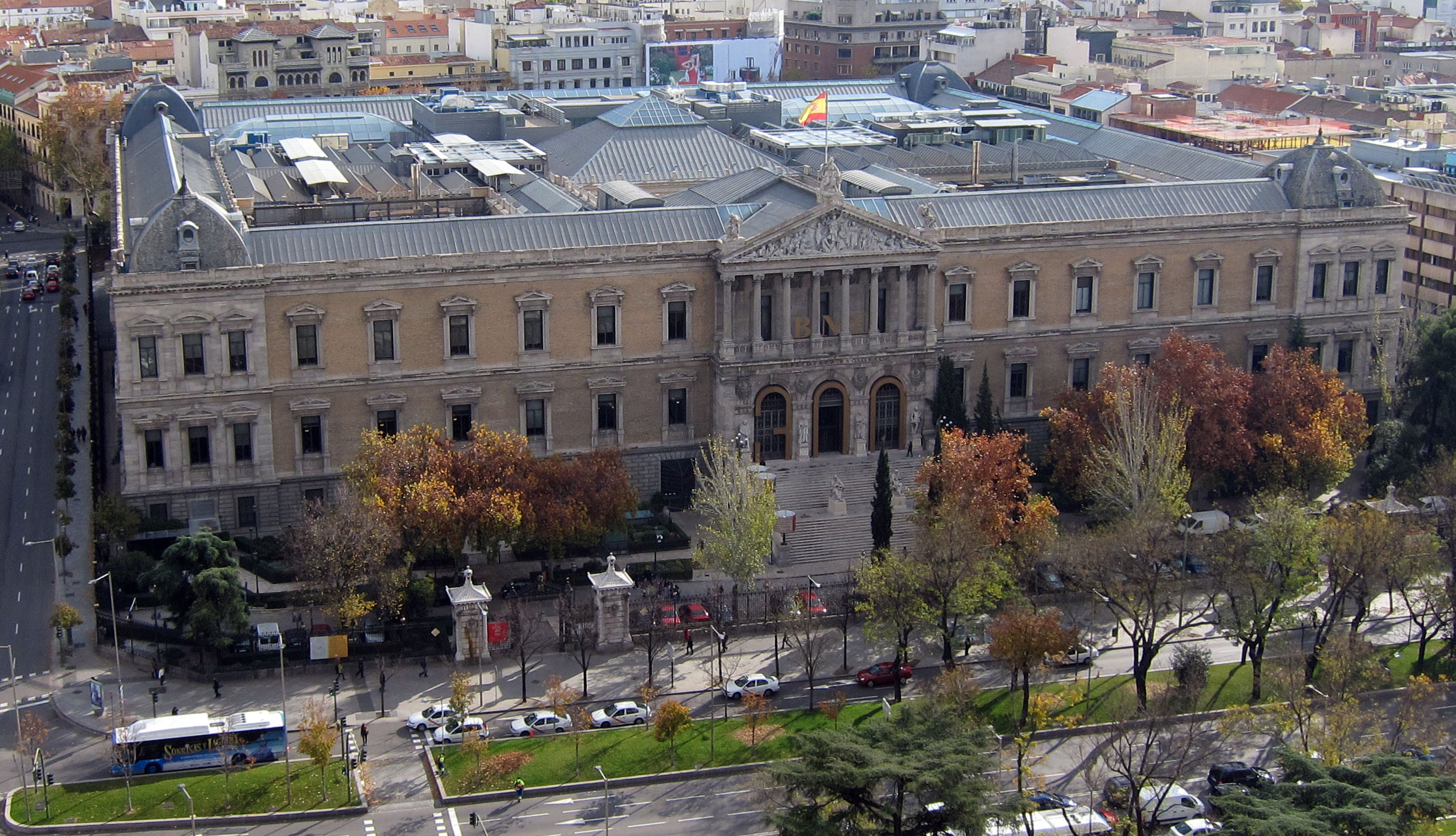 National Library of Spain, in Madrid.